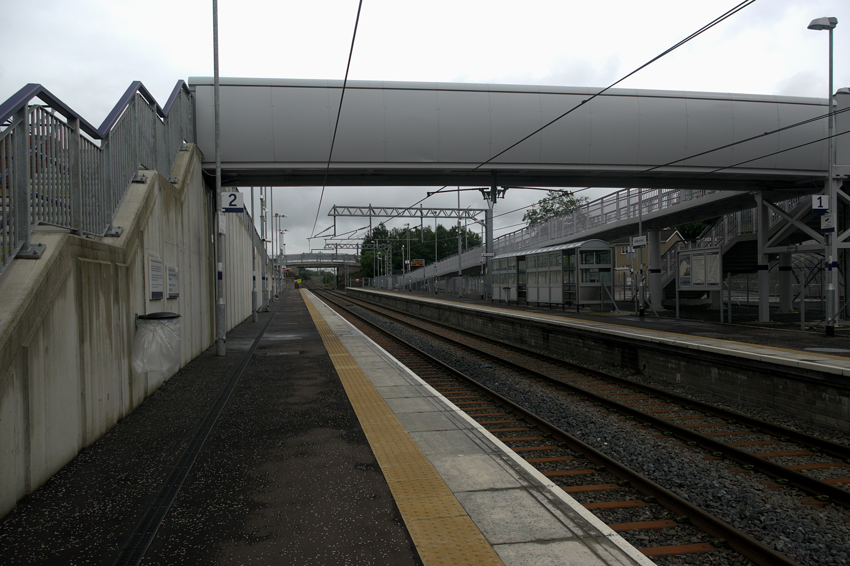 Caldercruix railway station looking east towards Edinburgh